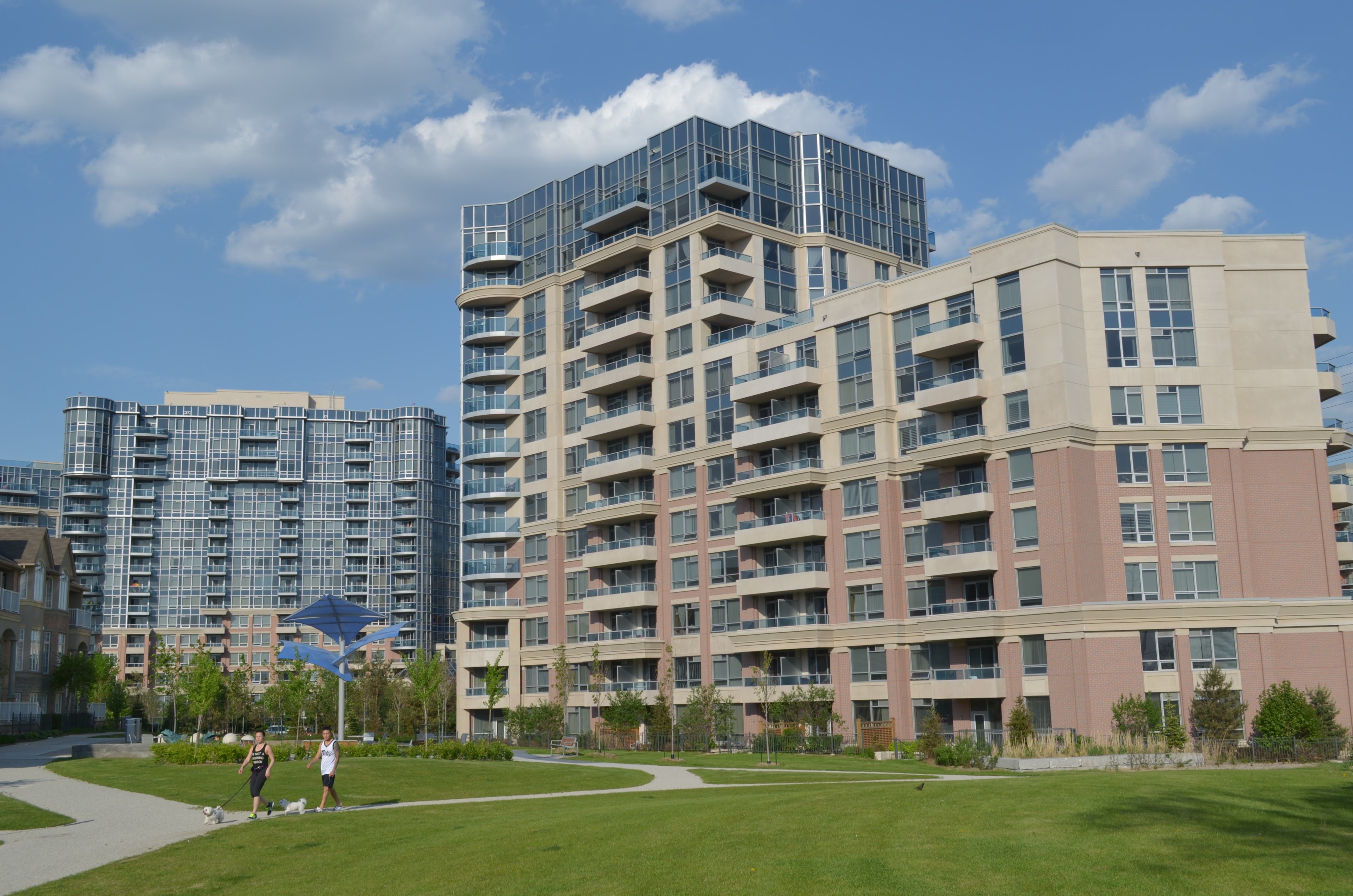 Condos in Markham - 23 Cox Blvd.